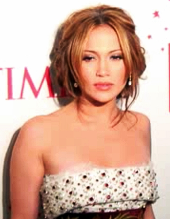 Jennifer Lopez in 2006 Time 100.